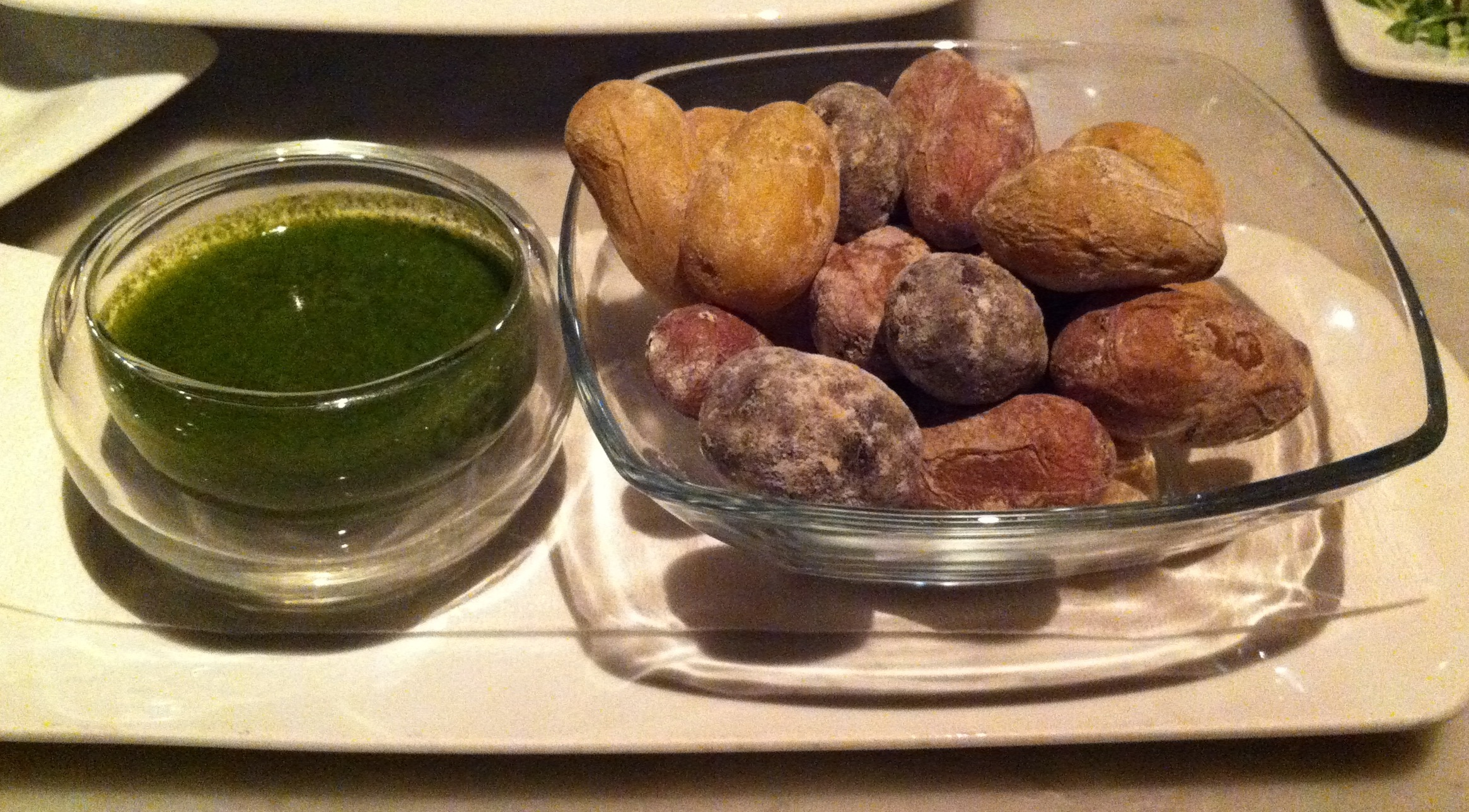 salty wrinkled potatoes, mojo verde.